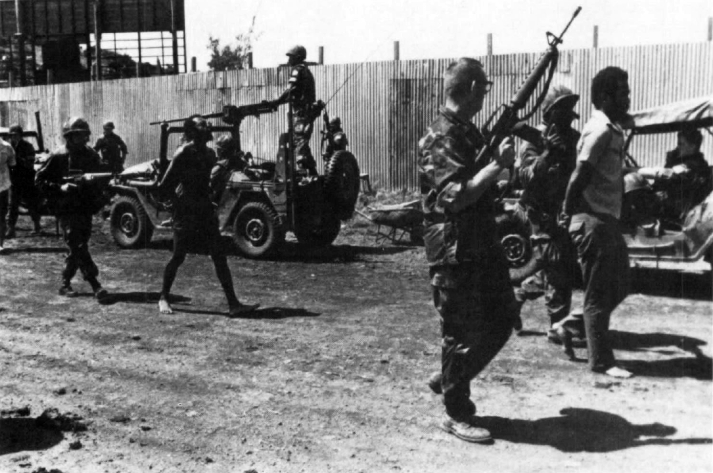 Suspected members of the Grenadian People's Revolutionary Army are taken by U.S. Marines to temporary compounds at the Queen's Park Rececourse, north ot St. George's, Grenada, October 1983.